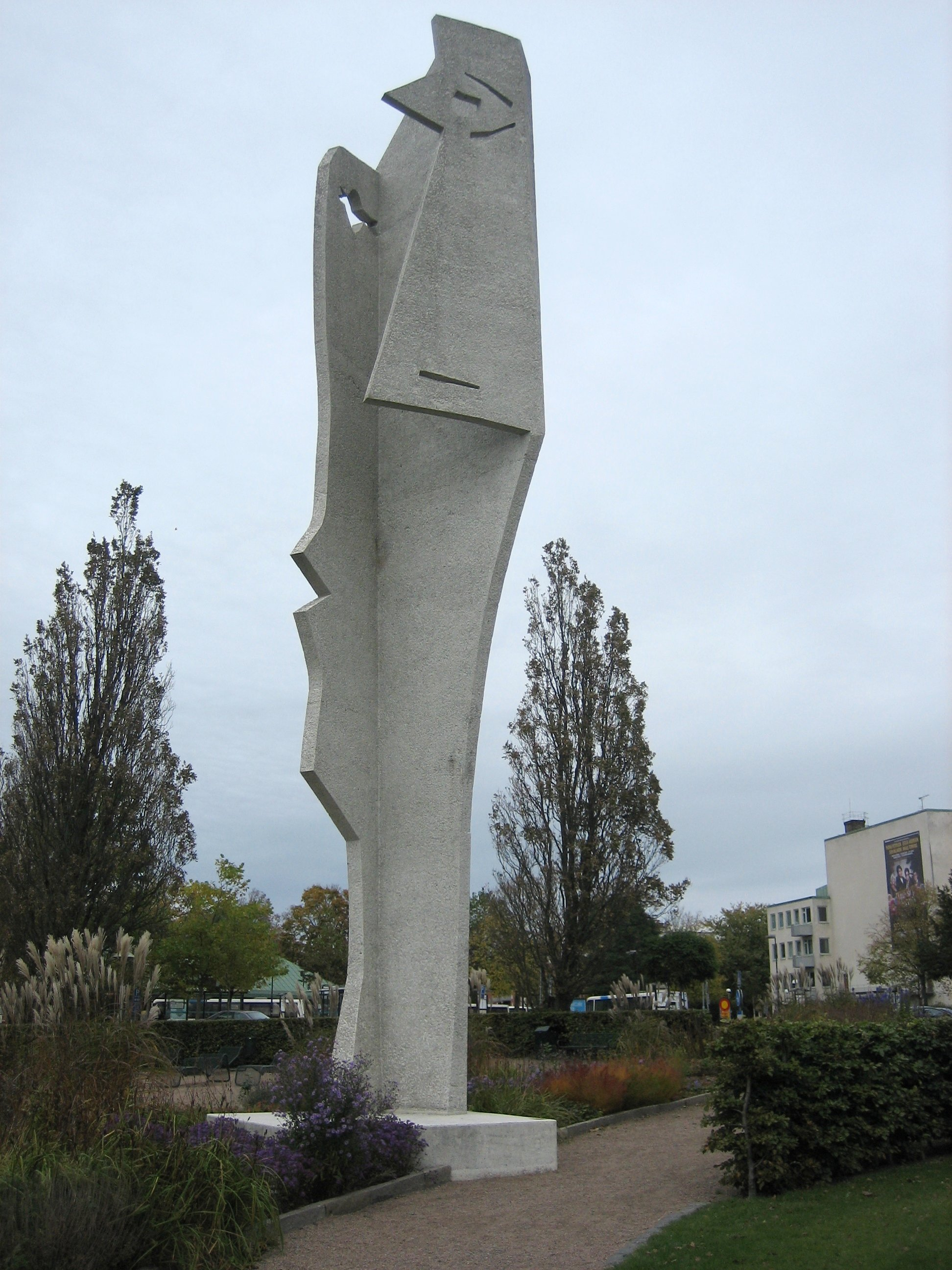 The statue "Head of female" by Pablo Picasso in Halmstad, Sweden.